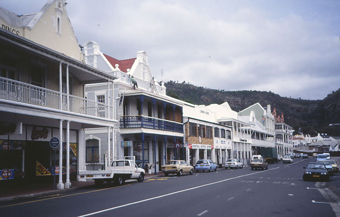 Saint Georges Street, the main street in Simon's Town, South Africa. February 20, 1997.